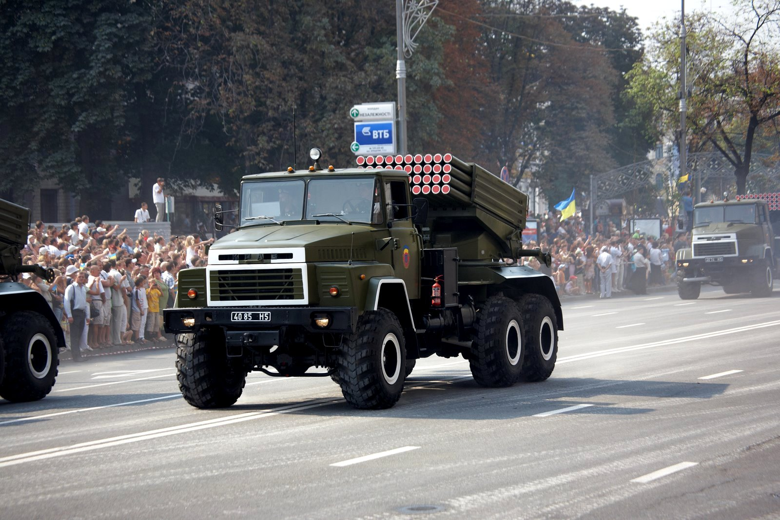 Ukrainian 9K51 "Grad" launchers during the Independence Day parade in Kiev, Ukraine in 2008.